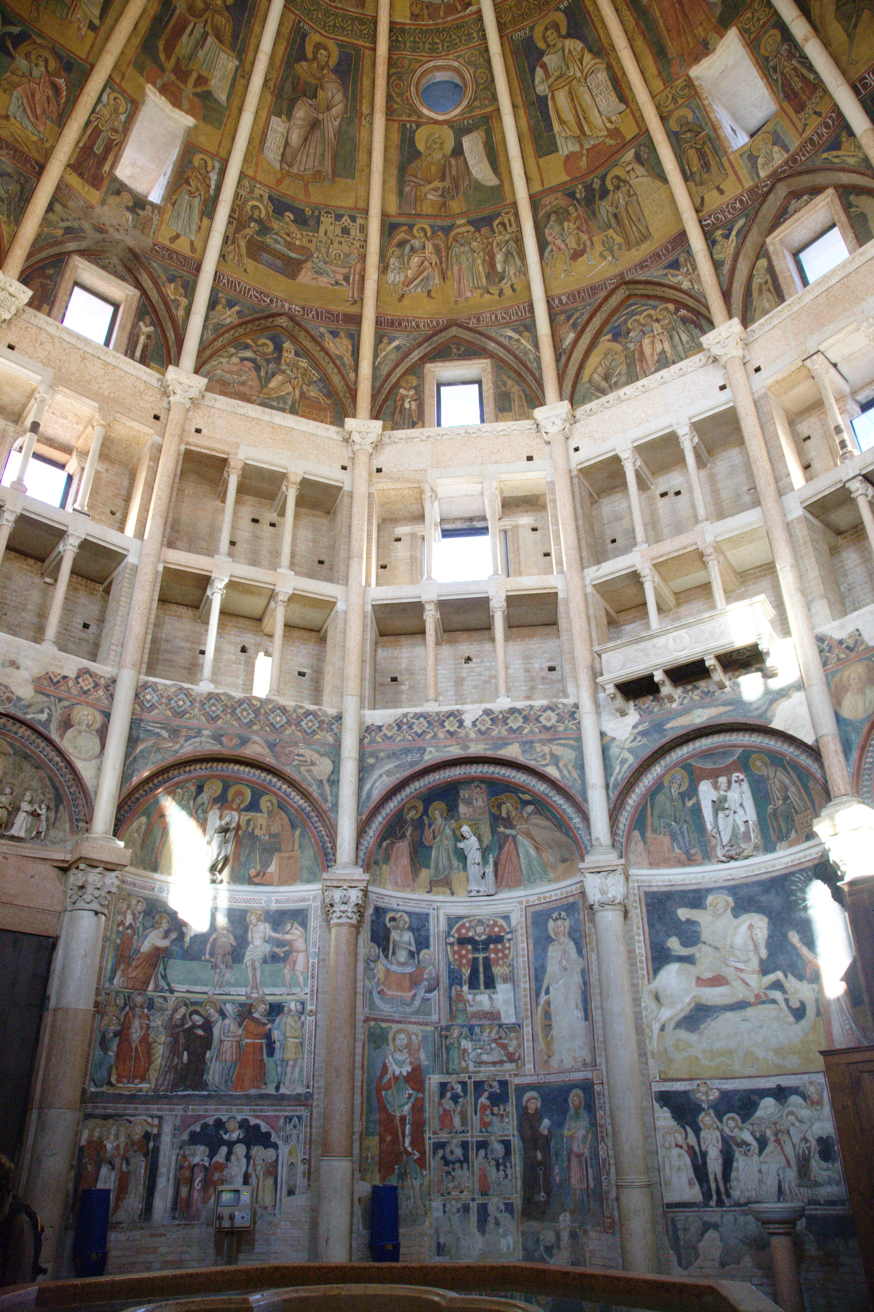 From the interior of the Baptistry of the Duomo in Parma